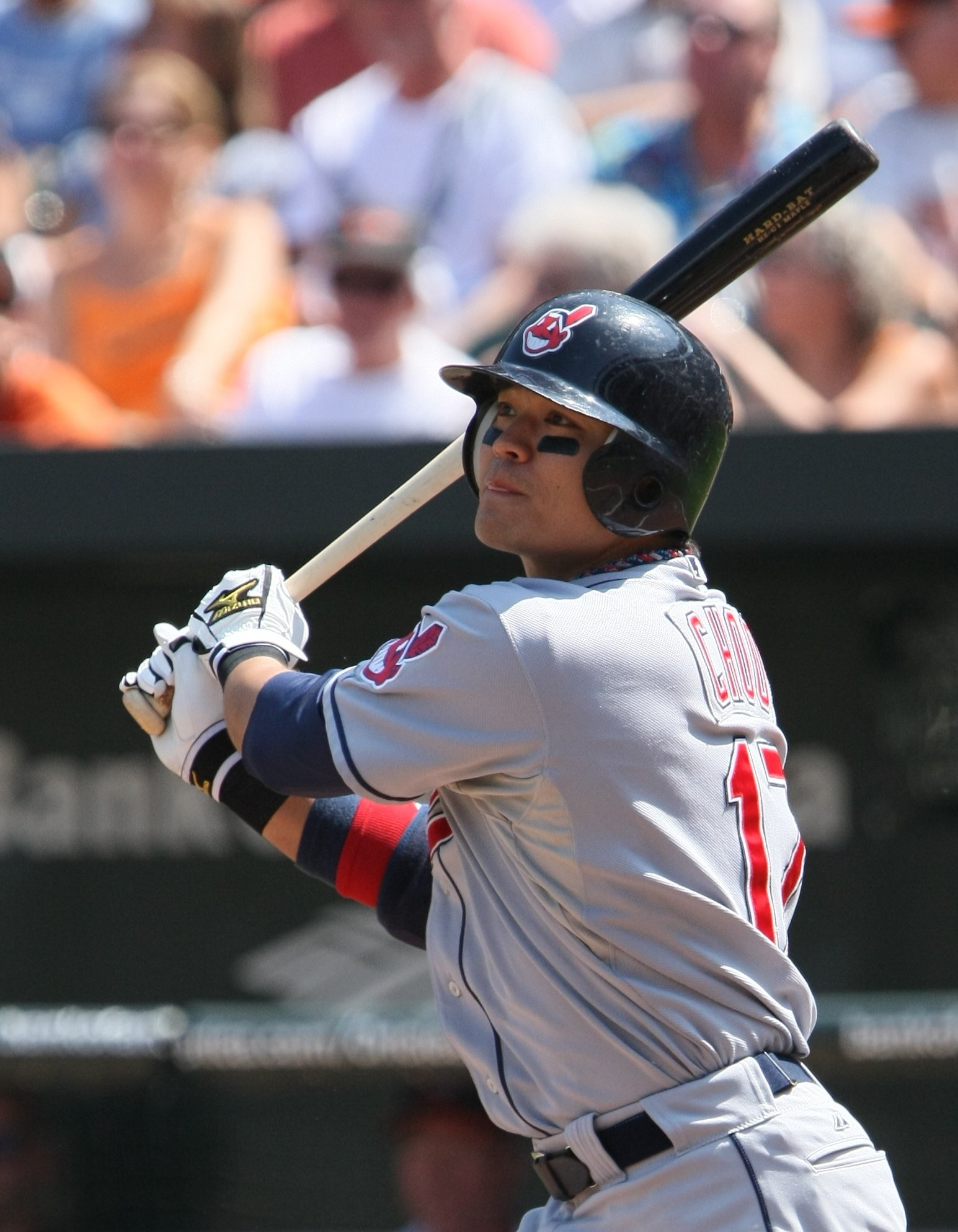 Baltimore Orioles v/s Cleveland Indians 08/30/09